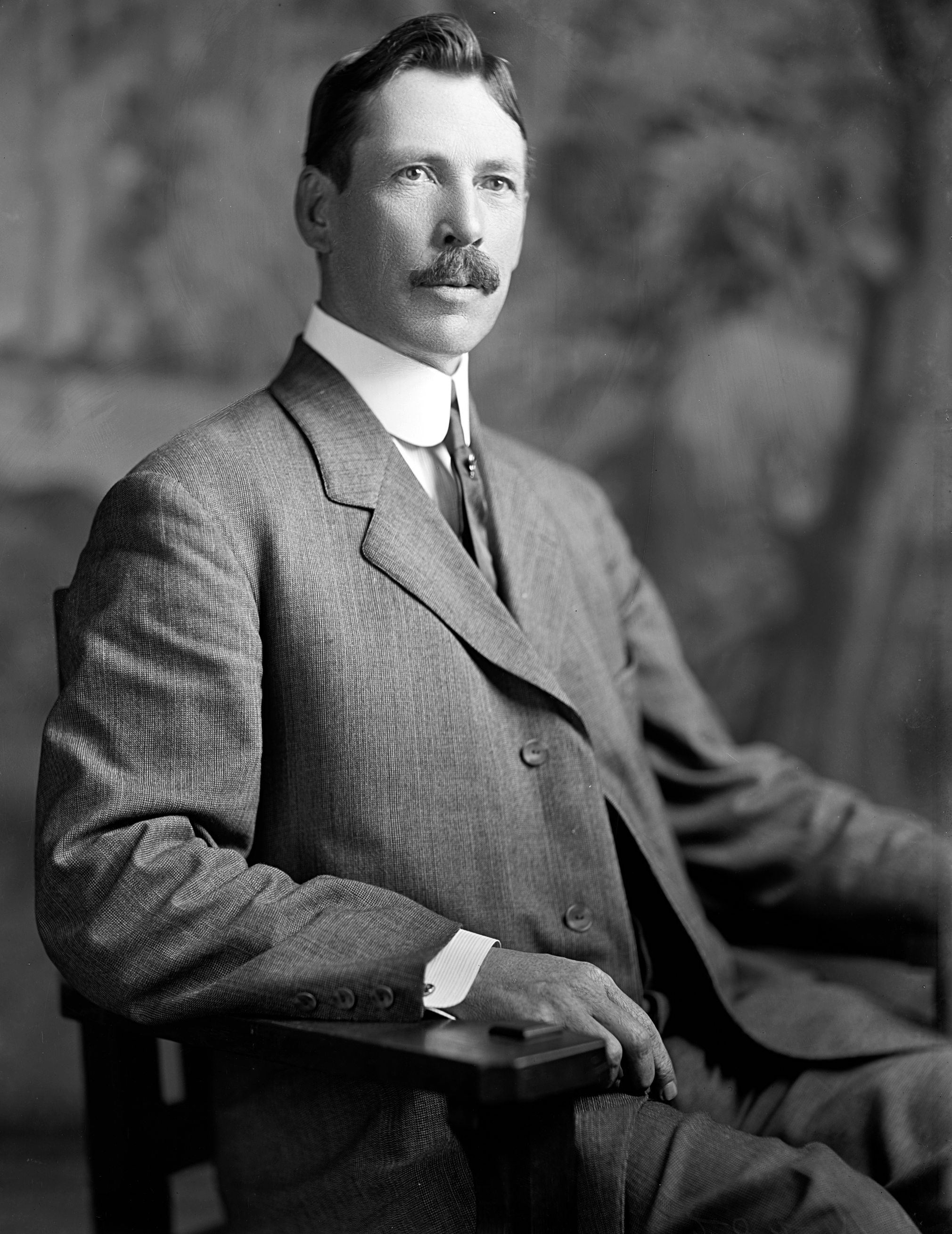 Charles Emory Patton, US Representative from Pennsylvania